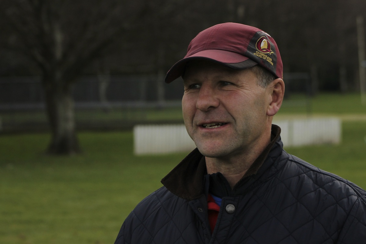 Robert Ackerman enjoying Saturday afternoon rugby at St Patrick's College, Silverstream.